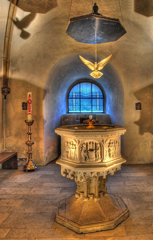 Billerbeck (North Rhine-Westphalia, Germany) – Catholic Saint John the Baptist Church – Gothic baptismal font (1497) in the tower chapel This photograph was taken with a Nikon D3000